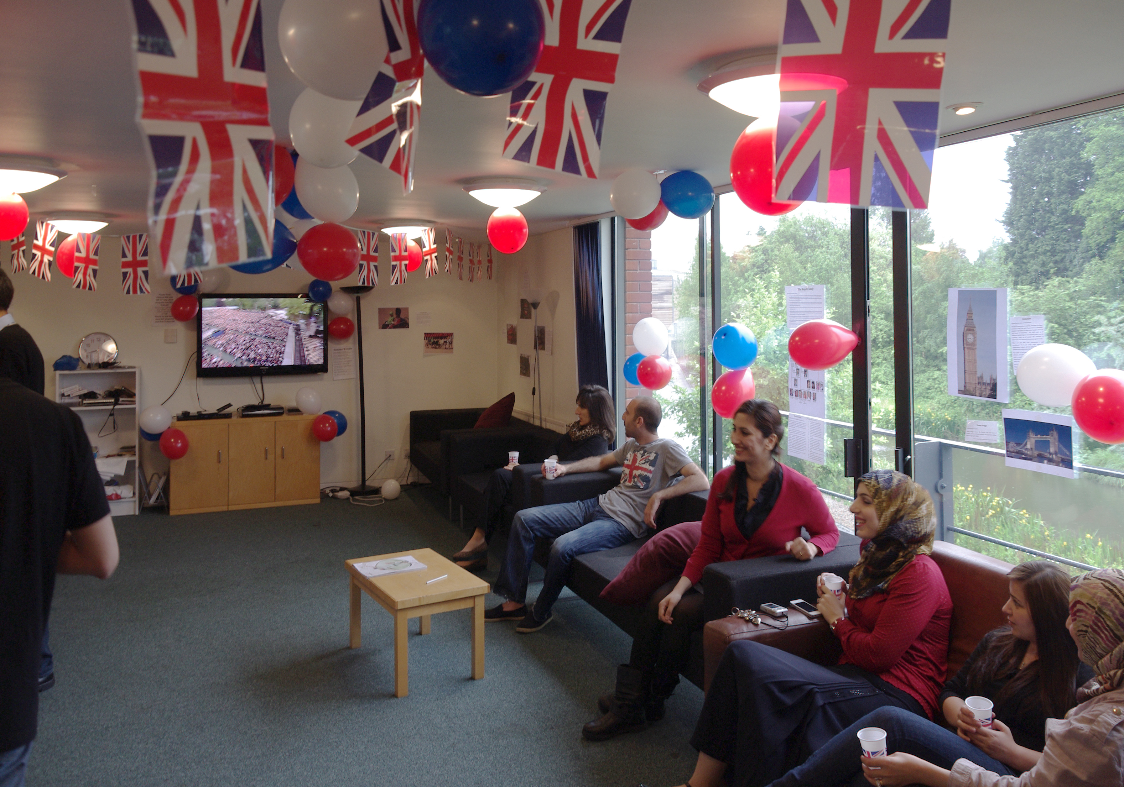 The Melton Hall Diamond Jubilee party.